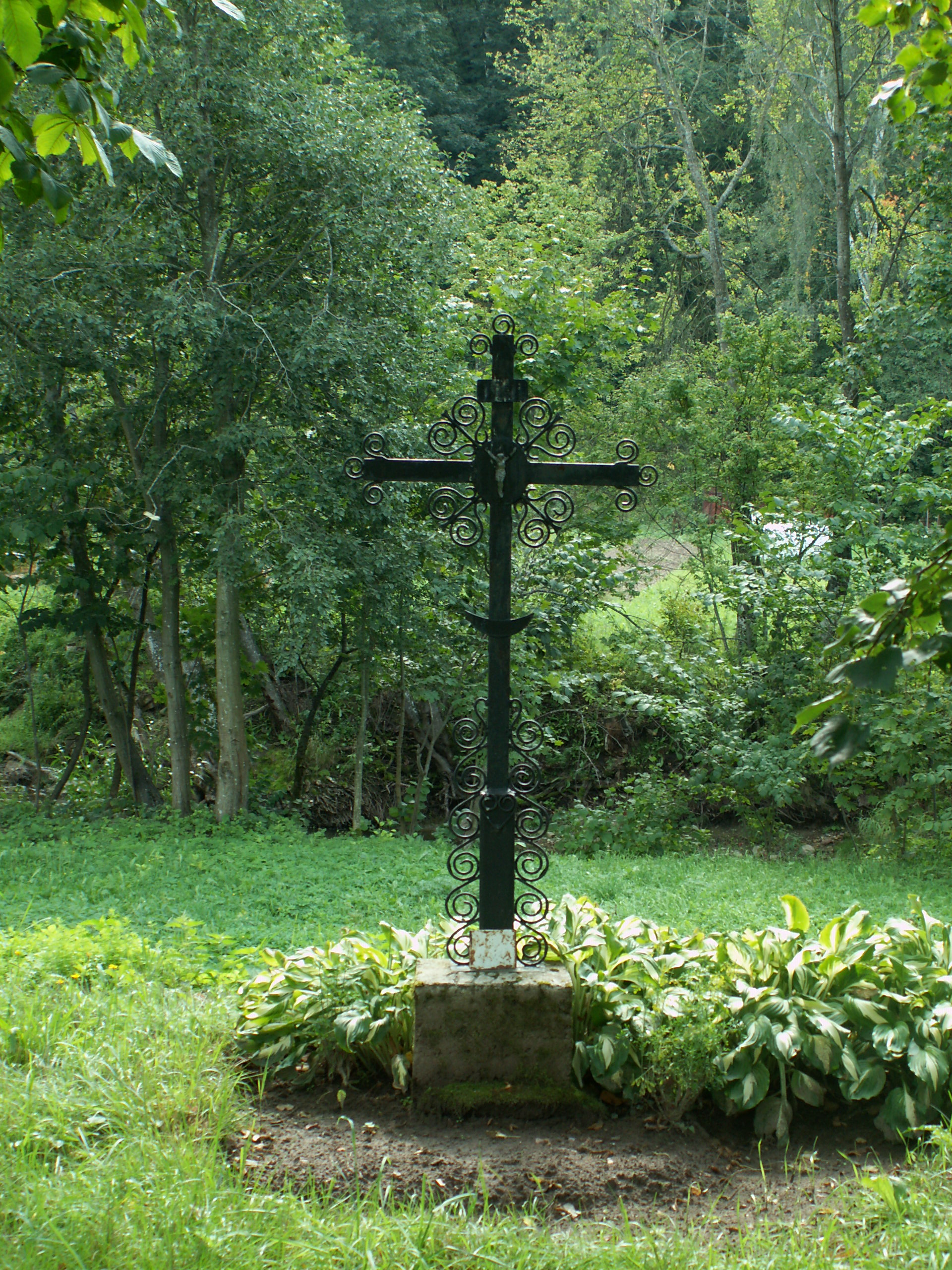 Gintarai, Vėlaičiai cross, Kretinga district, Lithuania